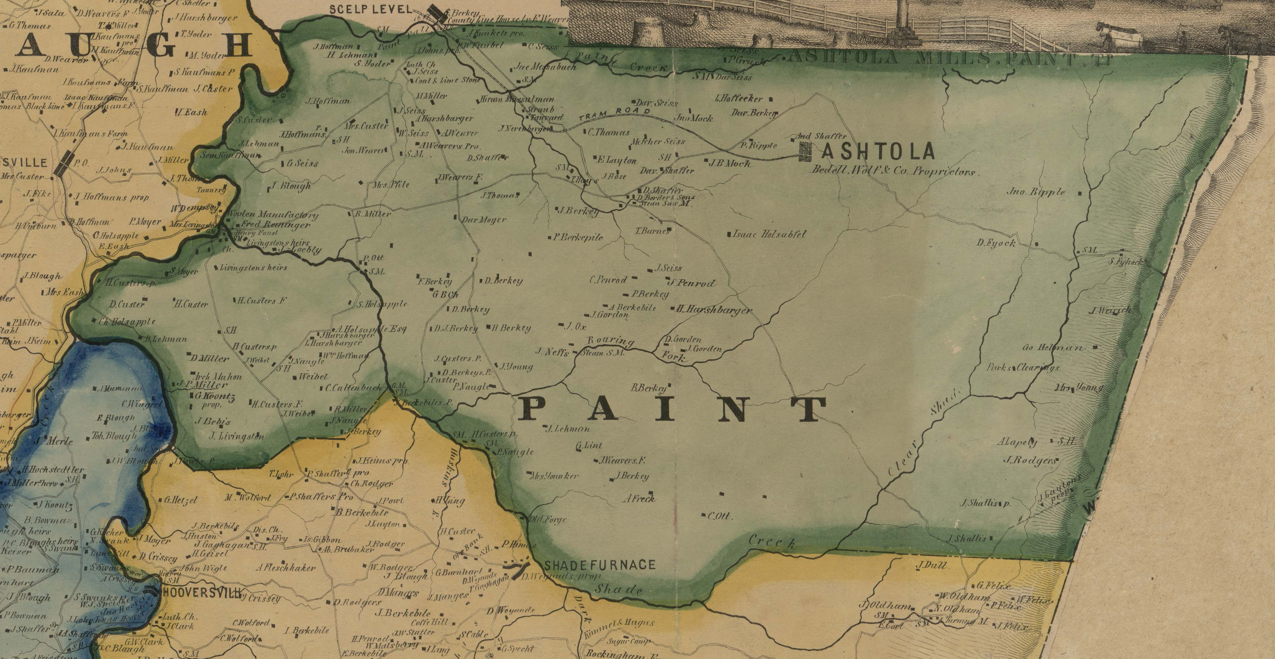 Map of Paint Township, Somerset County, Pennsylvania, taken from 1860 Edward L. Walker map of Somerset County available at the Library of Congress website